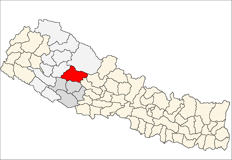 FrenchCarte de localisation dudistrict de Rukum(wp-FR),au Népal (wp-FR).EnglishLocation map ofRukum District(wp-EN),in Nepal (wp-EN).